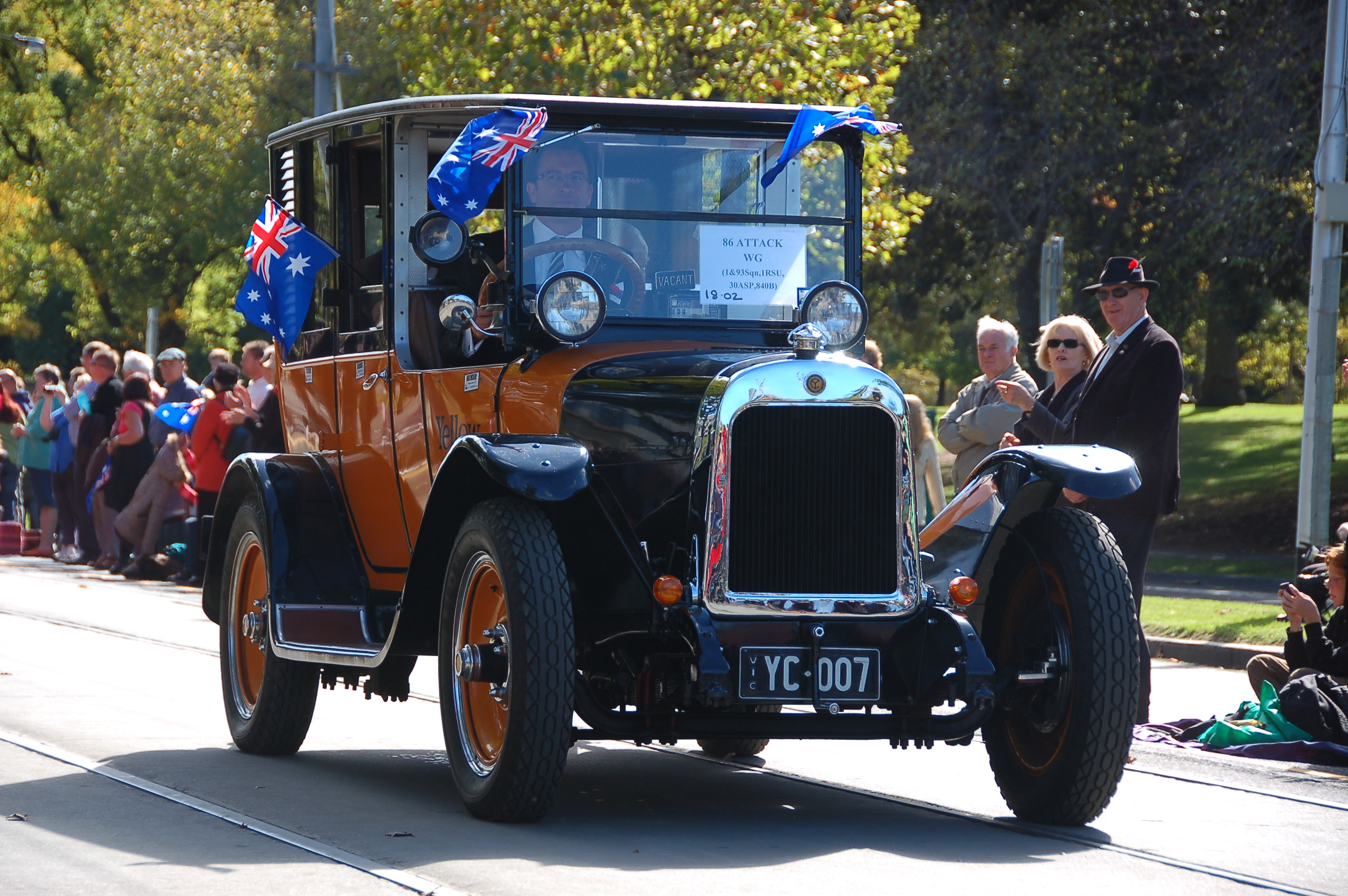 ANZAC Day Parade 2013 in Melbourne.